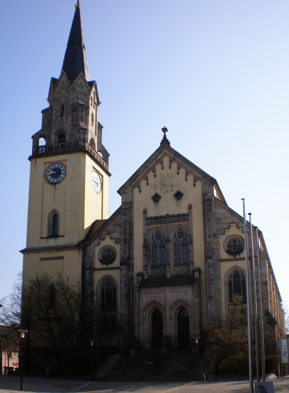 St. Andrew church in Selb, Germany